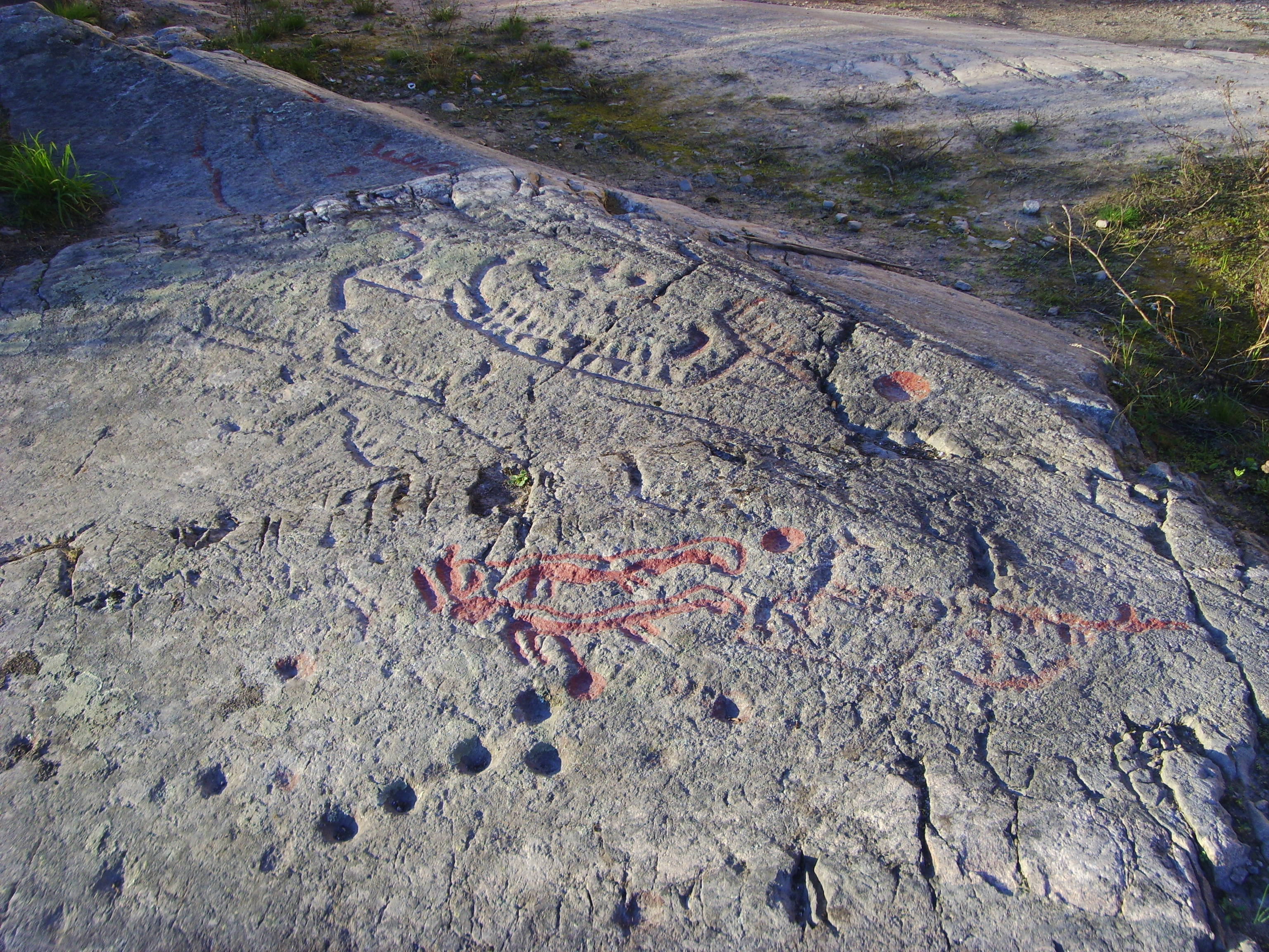 The rock carving sites of Norrköping are concentrated to the area around the river Motala ström (2 x 5 km), which was suitable for settlement during the Bronze Age (c 1800-500 BC), The pictures (more than 7300) are dominated by cup marks (c 4000) and ships, but the visitor also will discover humans, animals, weapons and sun symbols.